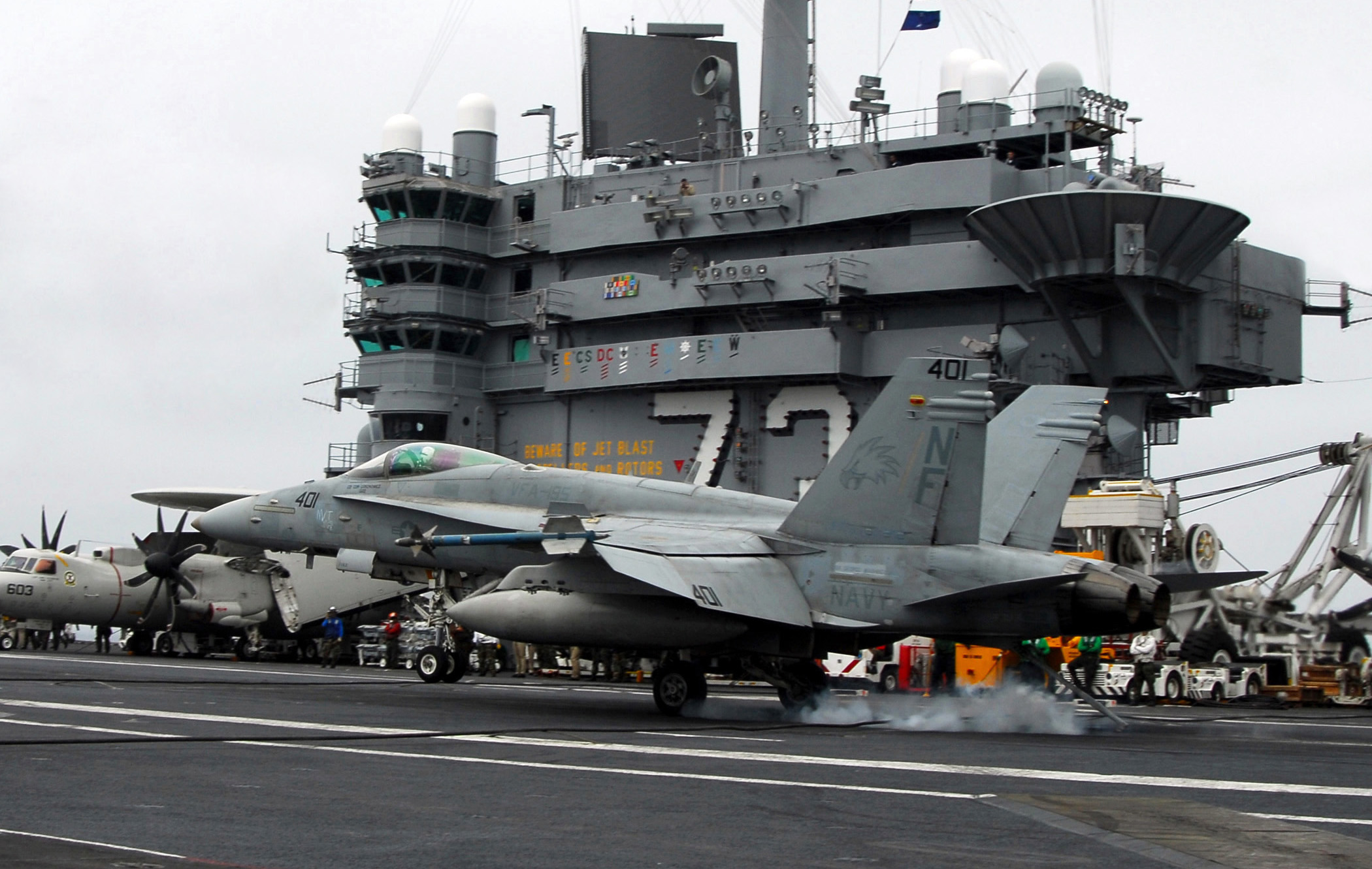 A McDonnell Douglas F/A-18C Hornet from the Dambusters of U.S. Navy strike fighter squadron VFA-195 lands on the flight deck of the aircraft carrier USS George Washington (CVN-73) on 27 August 2008. The carrier was transiting off the coast of Southern California working on its combat operations efficiency evaluation with Carrier Air Wing Five (CVW-5). George Washington was en route to Yokosuka, Japan, where the ship replaced the USS Kitty Hawk (CV-63).